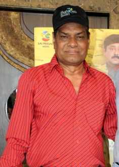 Rajesh Vivek at Meet & Greet of 'Chhodo Kal Ki Baatein' starcast